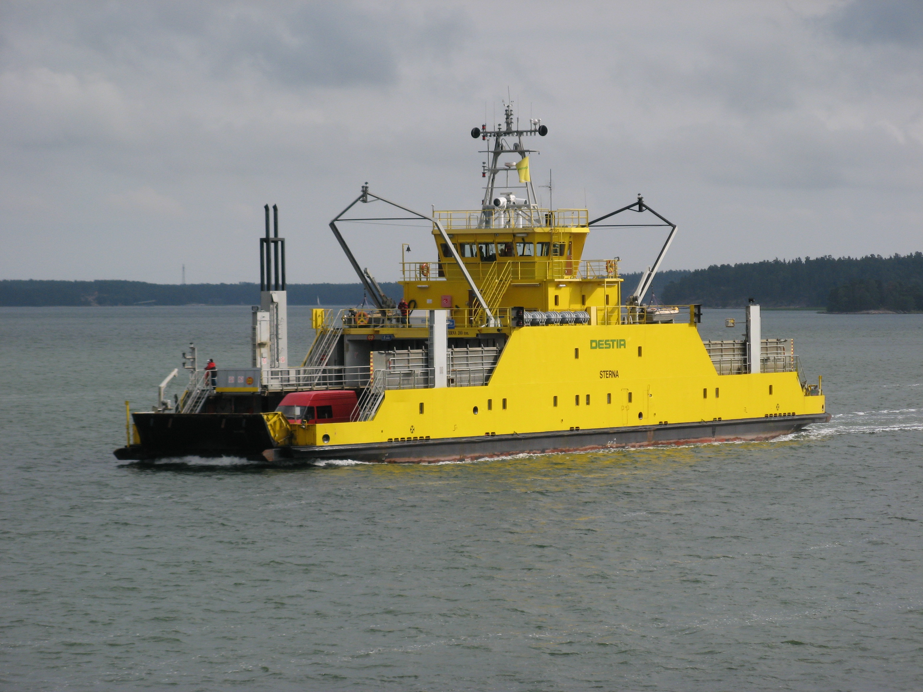 Finnish road ferry Sterna on the route between Nagu and Pargas, summer 2009.